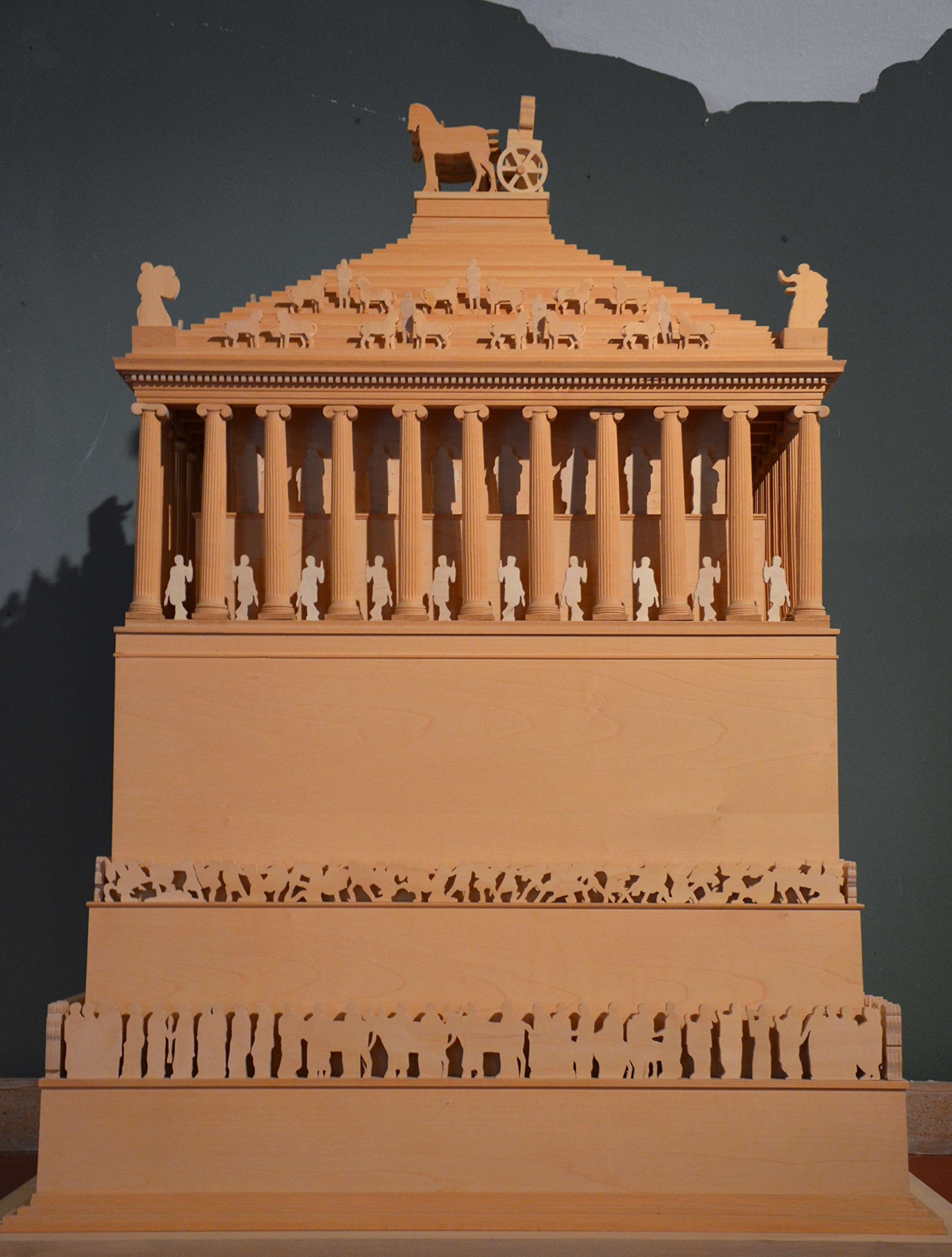 Model of the Mausoleum of Halicarnassus, constructed for King Mausolus during the mid-4th century BC at Halicarnassus in Caria, Bodrum, Turkey